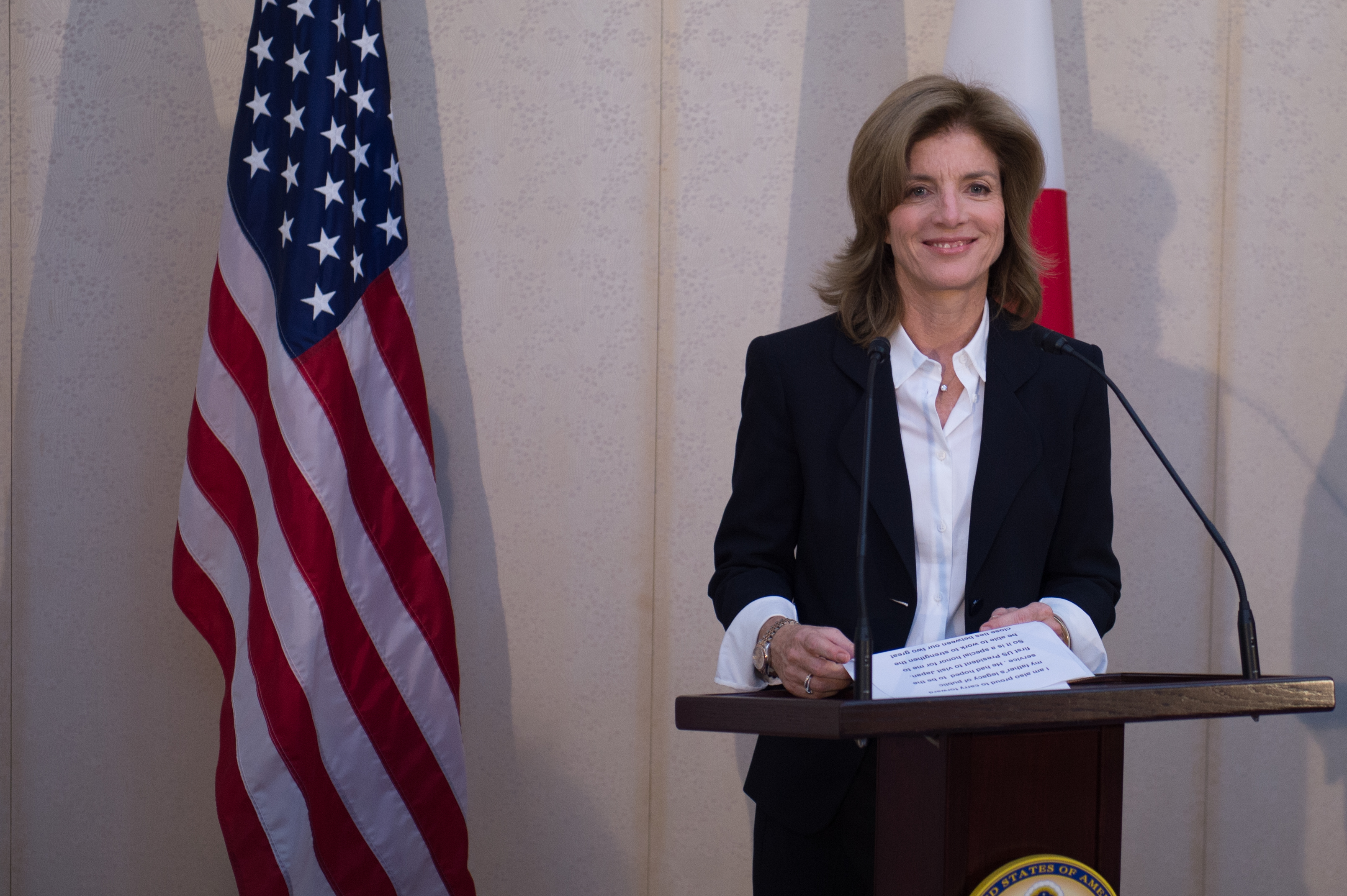 Caroline Kennedy, next Ambassador to Japan, made her first statement after arriving at the Narita International Airport in Narita City, Chiba Prefecture on November 15, 2013.